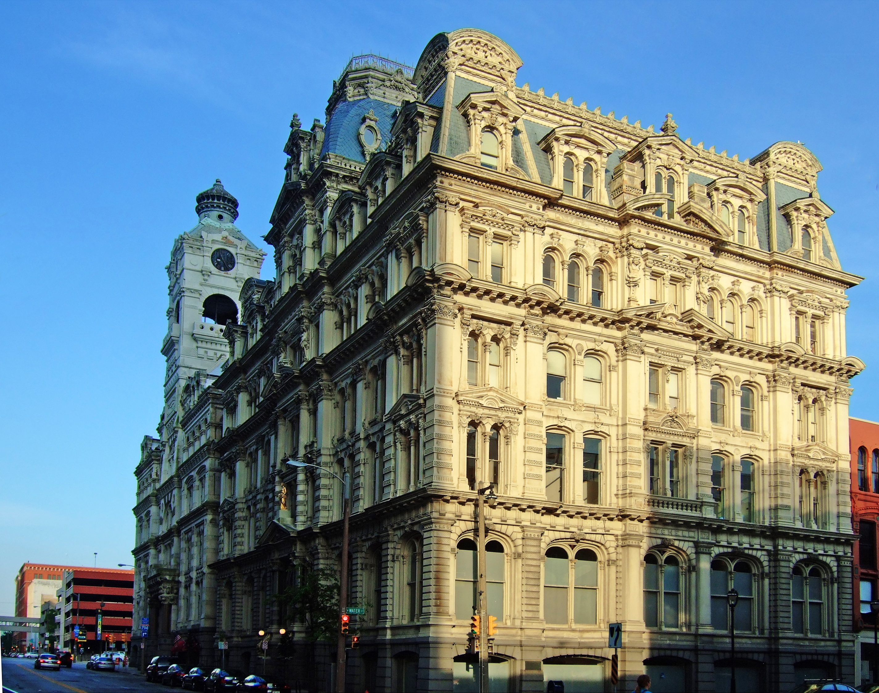 The Mitchell Building (1876) and the Mackie Building (1879) in downtown Milwaukee, Wisconsin, were both designed by E. Townsend Mix. The Mitchell Building at 207 E. Michigan Street was built for the millionaire Scottish immigrant, entrepreneur, and politician Alexander Mitchell. Designed in the French Second Empire style and constructed of gray sandstone at a total cost of $400,000, this building stood at the hub of downtown Milwaukee and still functions today as a commercial center. The Mackie Building is the former Chamber of Commerce and is now a private commercial building. Also known as the Produce or Grain Exchange, it was for a time the world's largest wheat exchange. Designed as a fireproof building in an eclectic style that combined an Italian Renaissance interior with an exterior variously described as Modern Italian or typical of Glasgow or Edinburgh, it has a basement level covered with Minnesota granite, higher masonry of Ohio sandstone, and Cream City brick. It has a clock tower with a height of 175 feet, 35 feet taller than its neighbor.